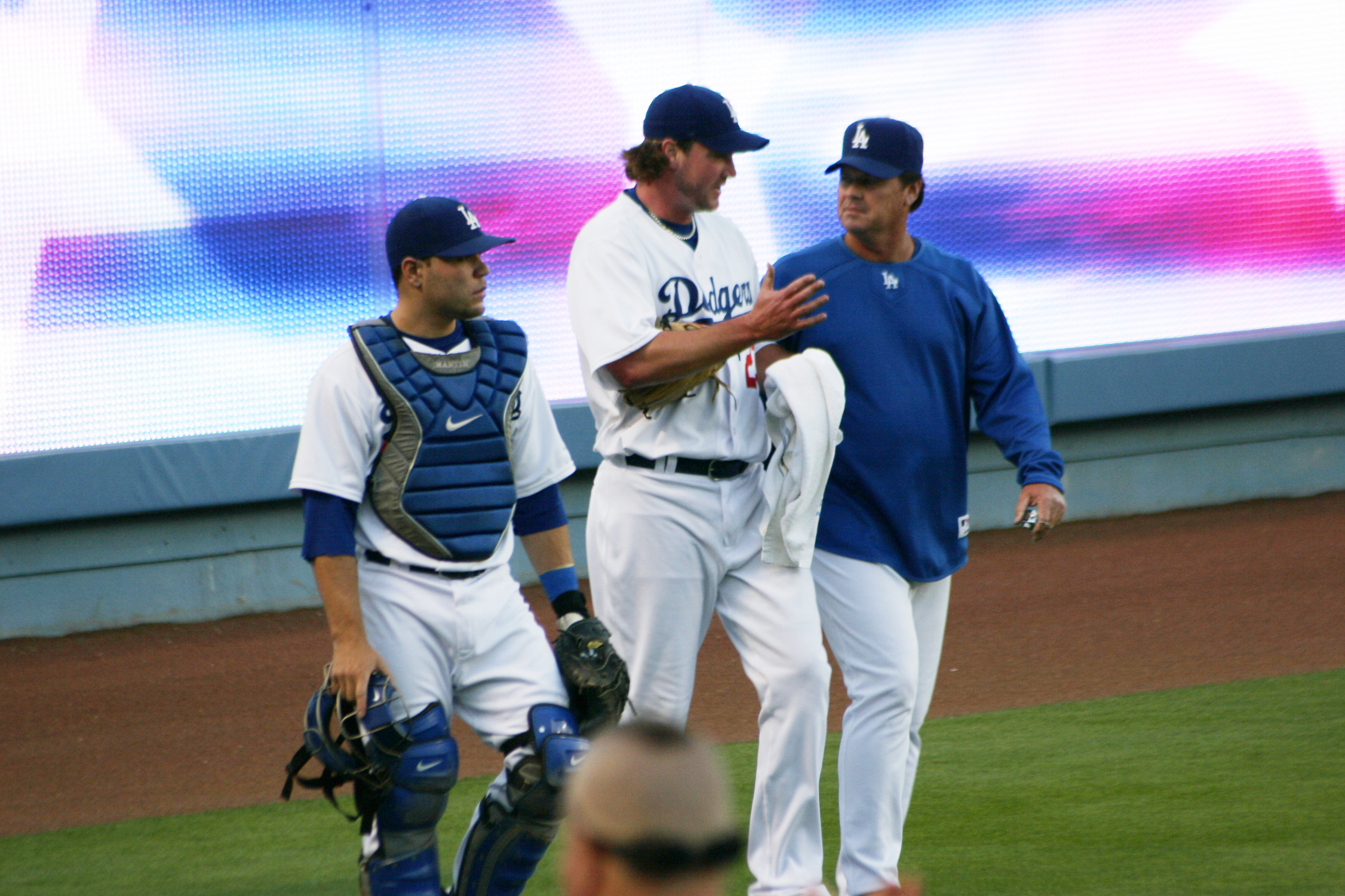 Russell Martin (left), Derek Lowe (center) and Rick Honeycutt